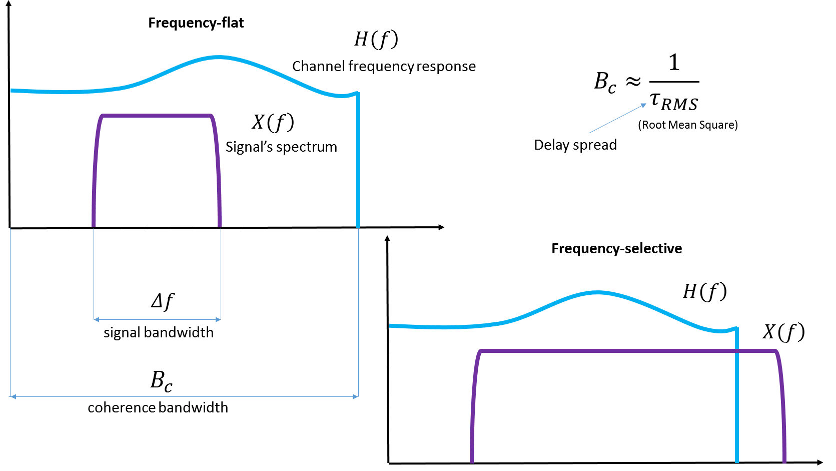 An illustration of the coherence bandwidth concept.